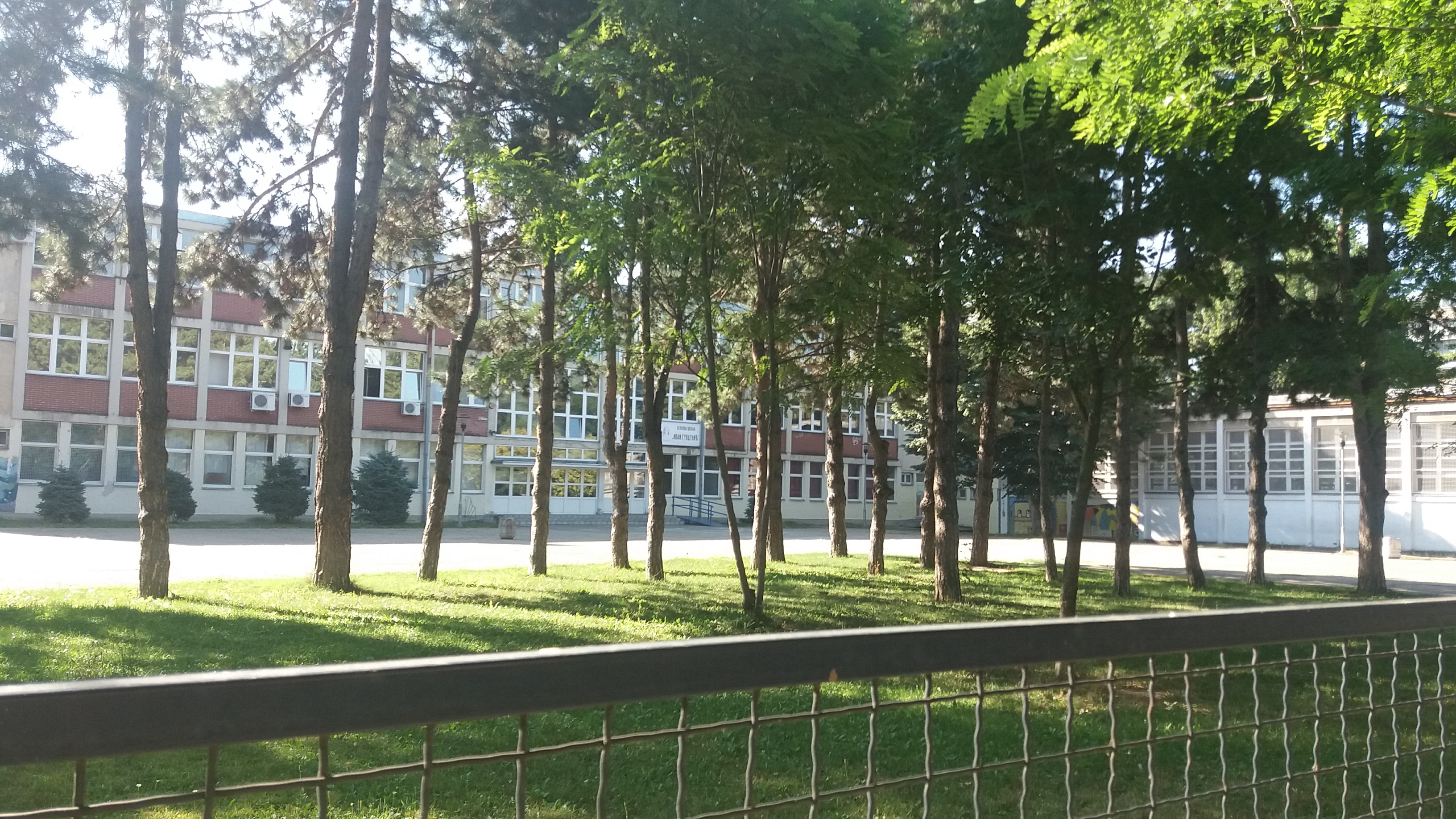 Elementary school "Ivan Gundulić", block 3, New Belgrade